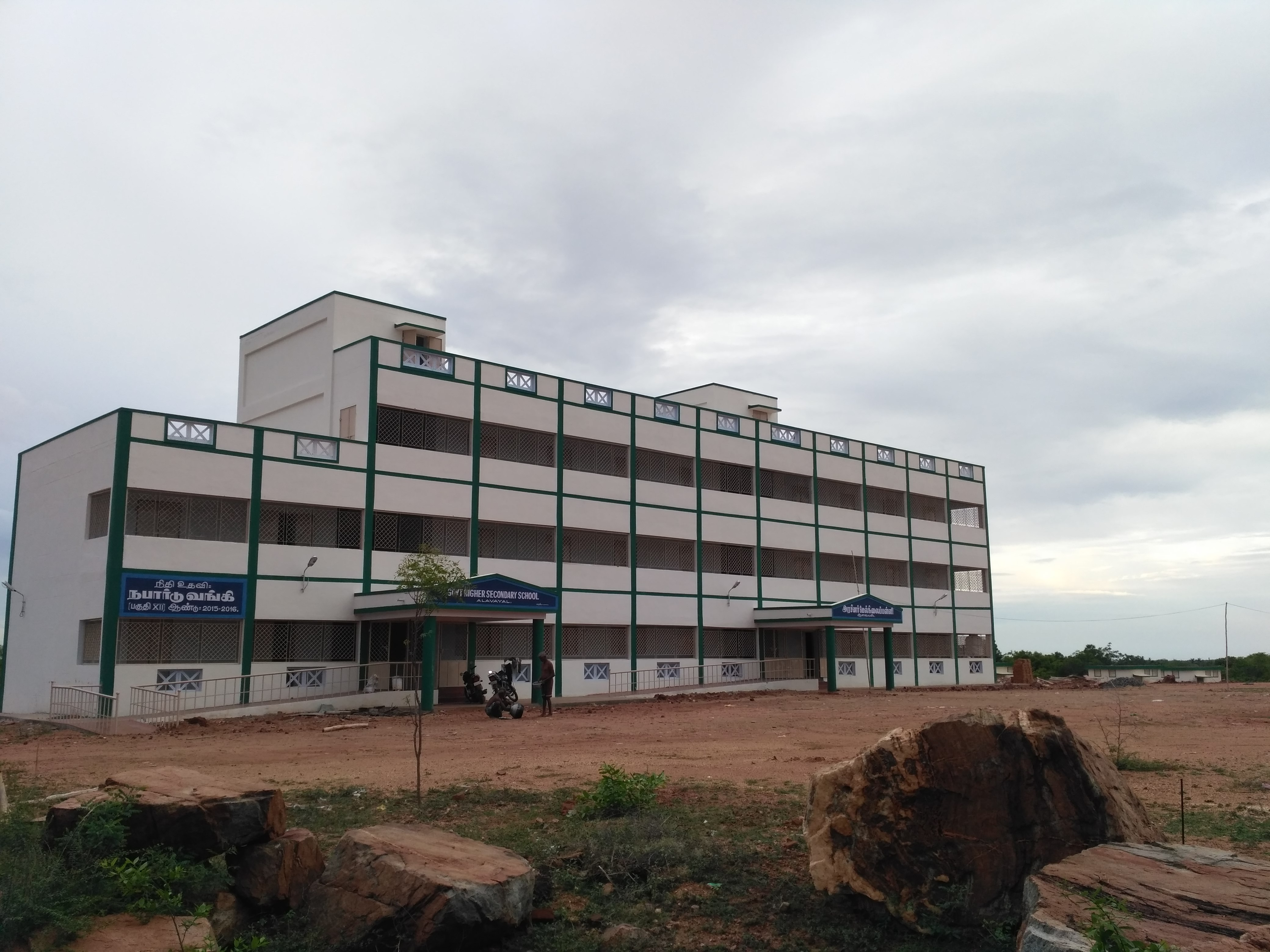 New Building of GHSS, Alavayal